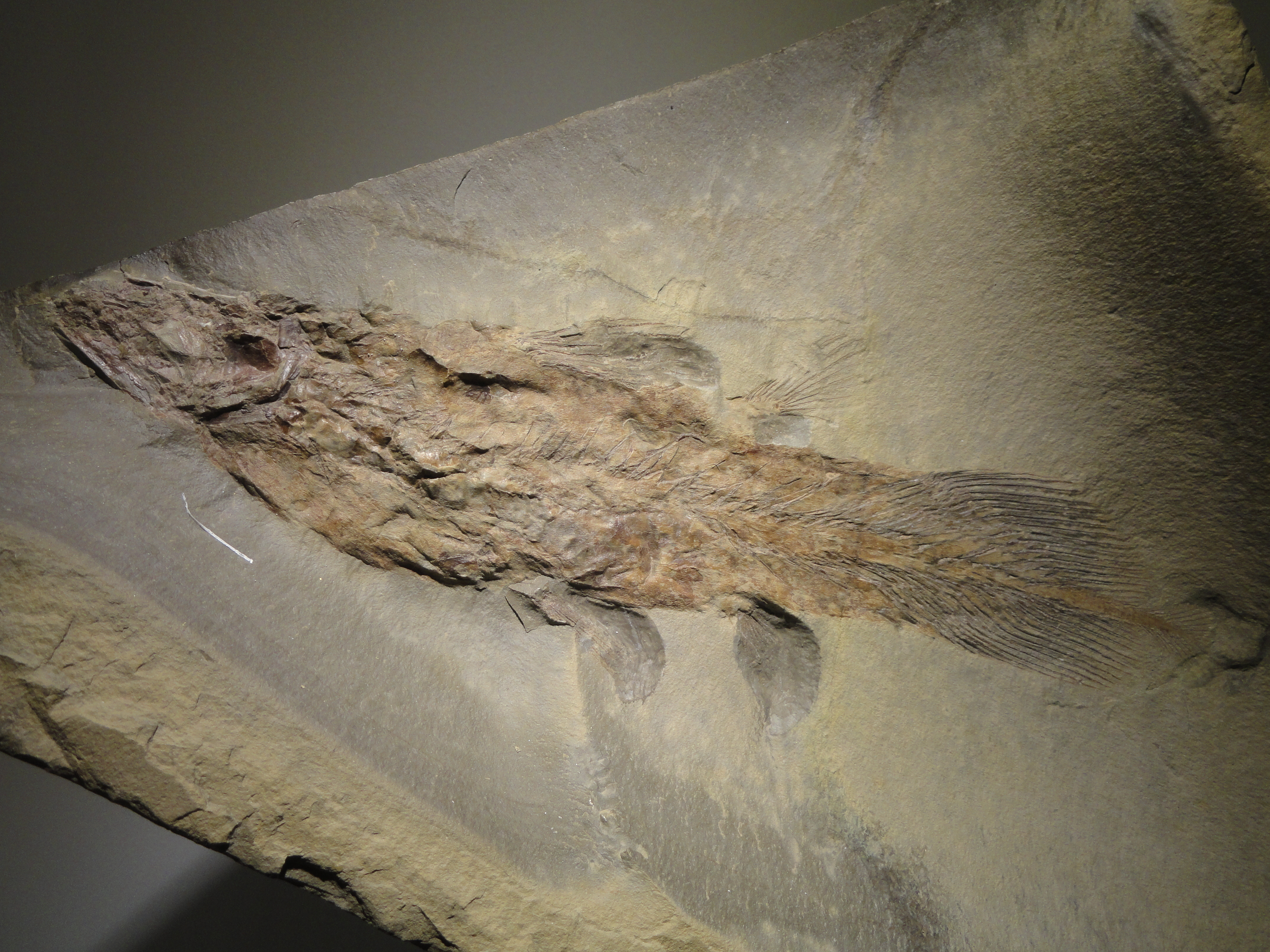 Exhibit in the Houston Museum of Natural Science, Houston, Texas, USA.